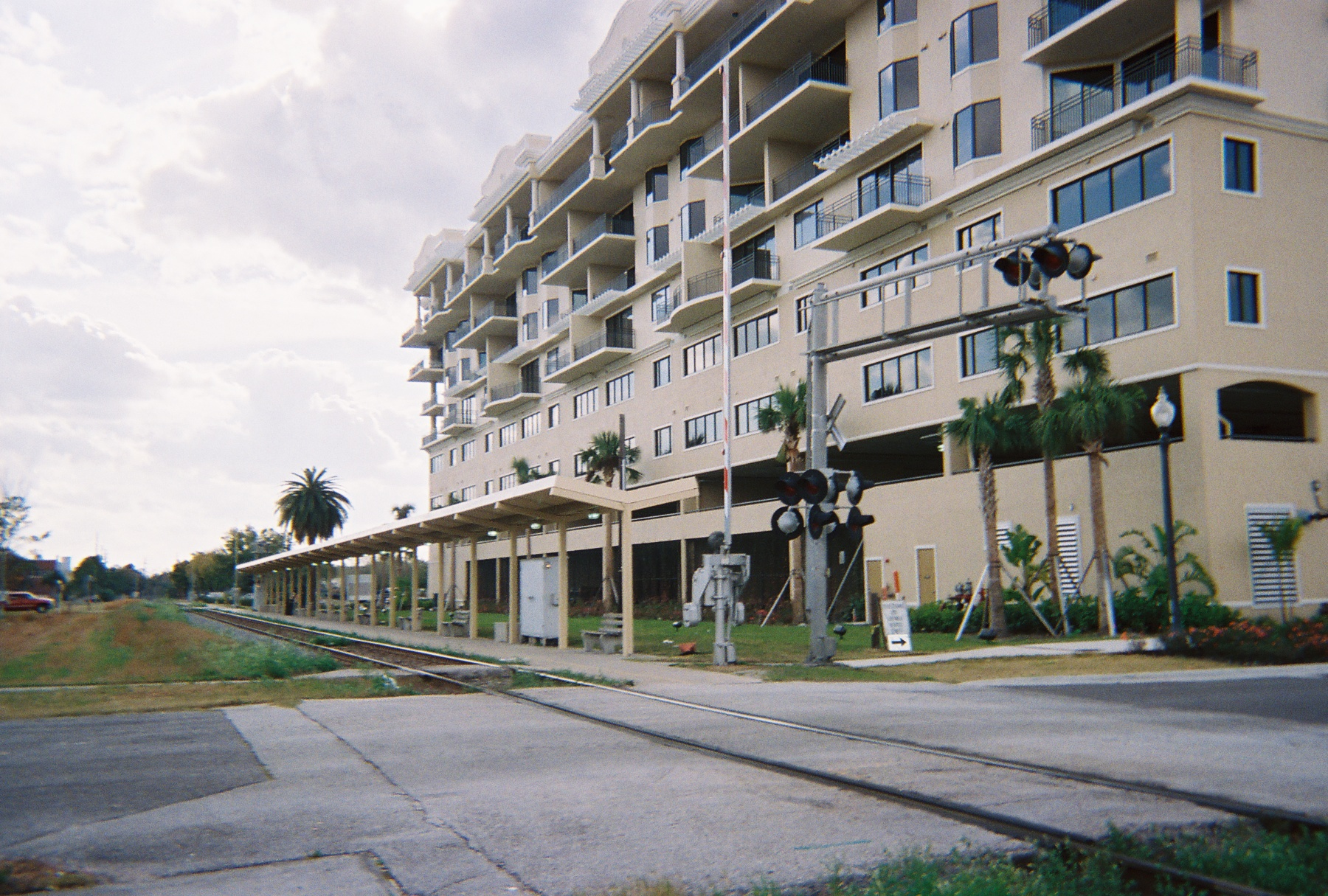 Southwest extension of the platform of the Kissimmee (Amtrak station), which runs beyond the station house on Dakin Avenue, moves past the grade crossing and extends as far west as Monument Avenue.